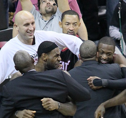 Miami Heat forward LeBron James and Miami Heat guard Dwyane Wade after their win against the Washington Wizards during an NBA basketball game in Washington, on Saturday, Dec. 18, 2010. The Heat won 95-94.